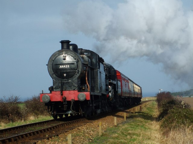 44422 and 76079 on a passenger train